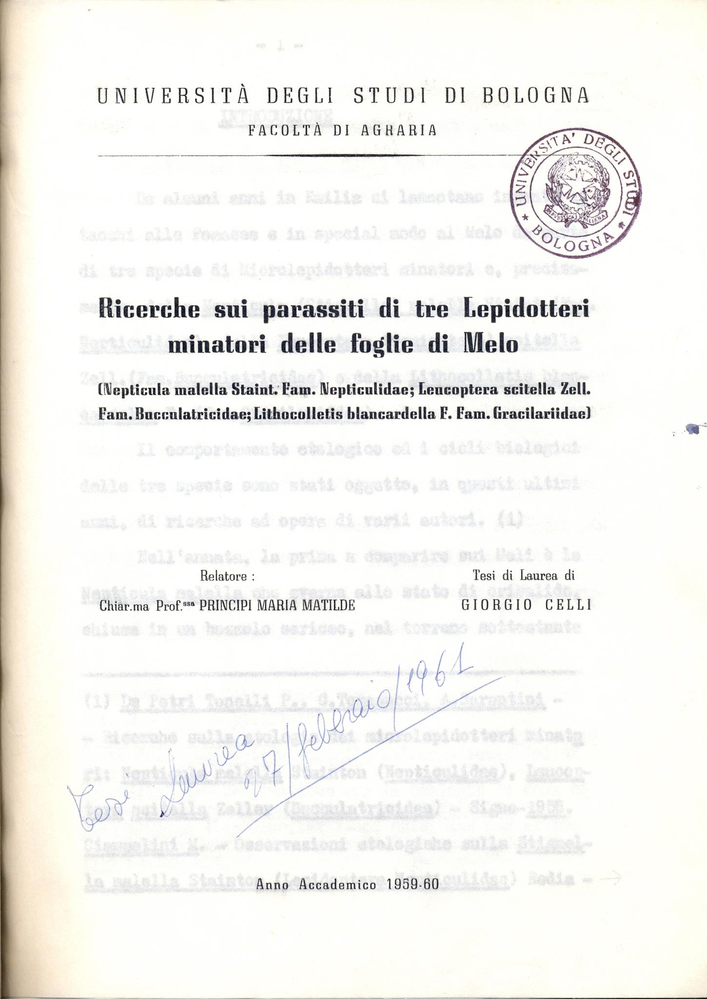 First page Prof Giorgio Celli's of University thesis 27/2/1961 with his handmade note.